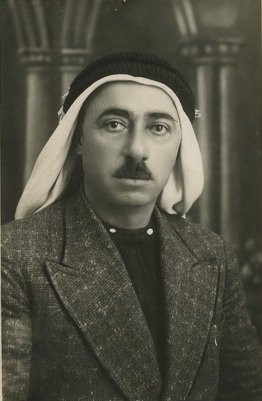 Portrait of the General Commander of the 1936-39 Arab revolt in Palestine